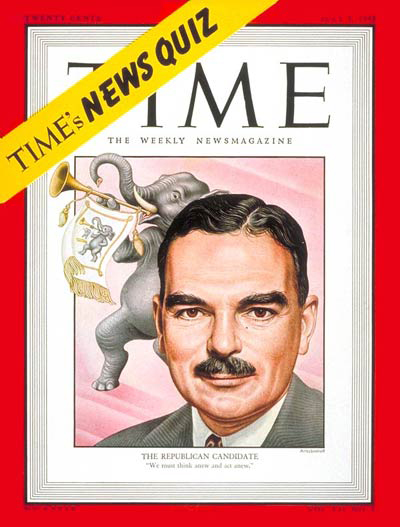 Time magazine, Volume 52 Issue 1. Front cover is an illustration of Thomas E. Dewey.